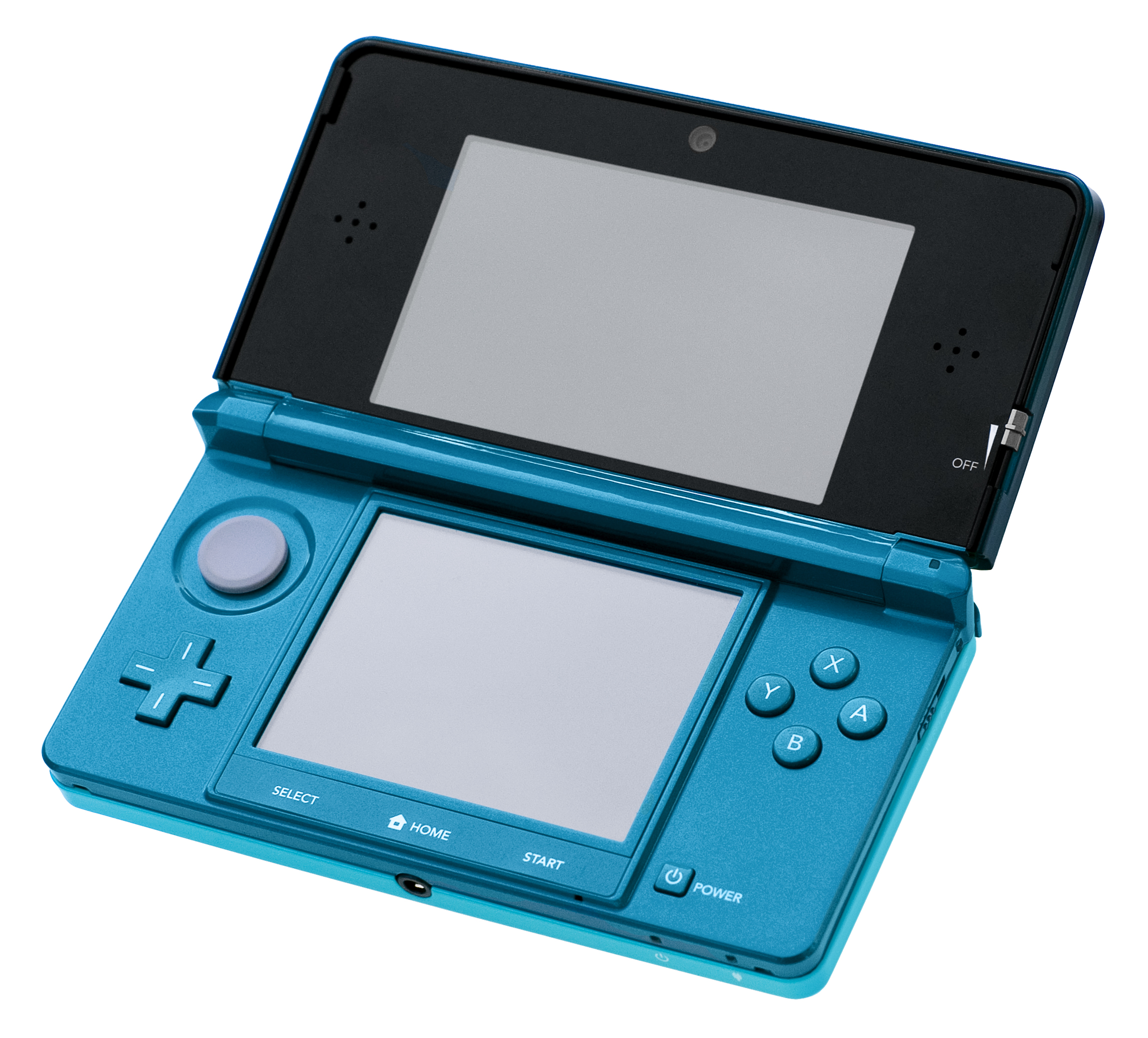 A Nintendo 3DS in Aqua Blue, photo taken during the 3DS launch event in NYC.